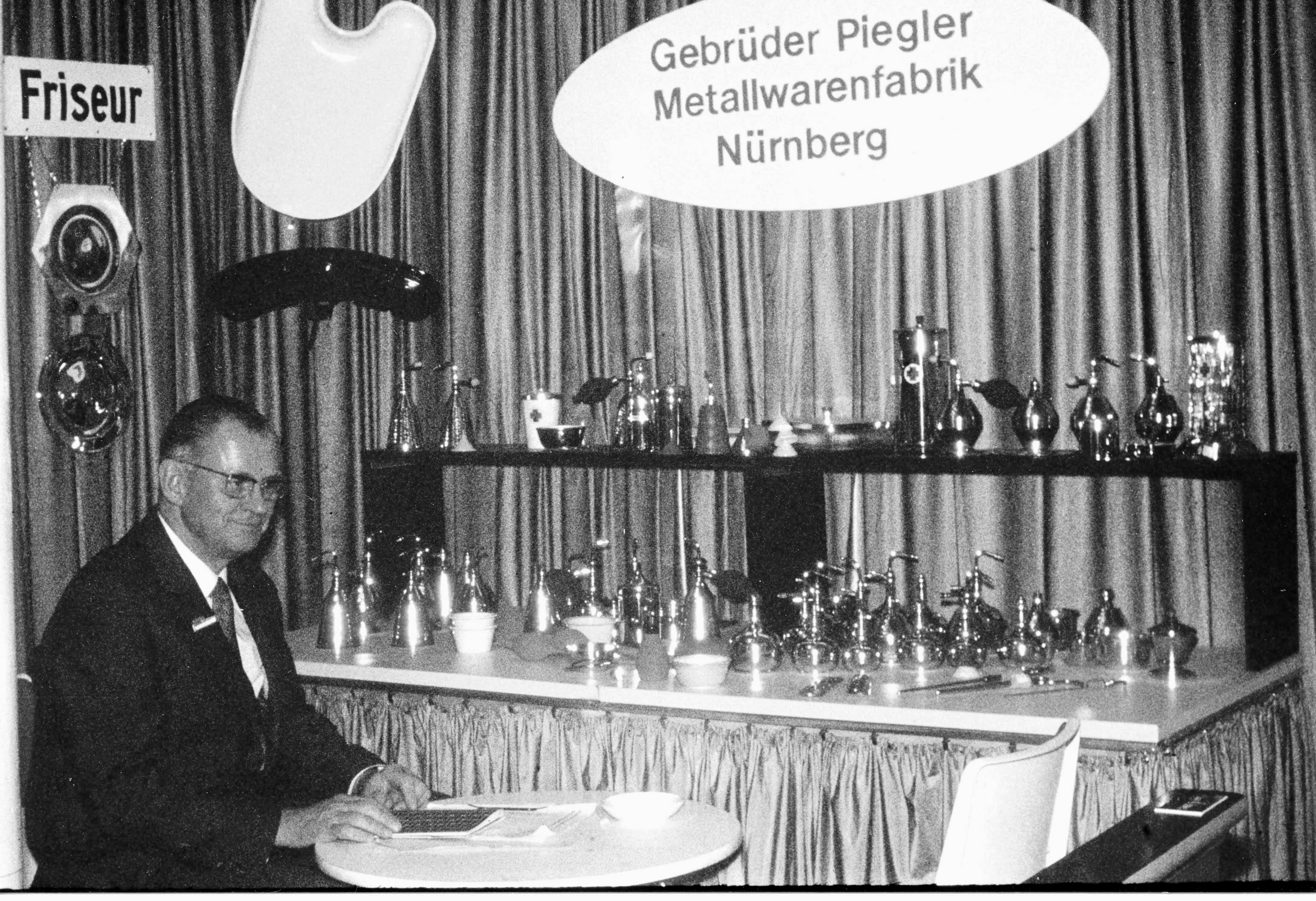 Theodor Piegler with the current range (1970) of hairdressing supplies from his metal goods factory in Nuremberg "Gebr. Piegler" at the sample salon "Euro Friwa" in the Hutten halls in Würzburg (01.07.1970)